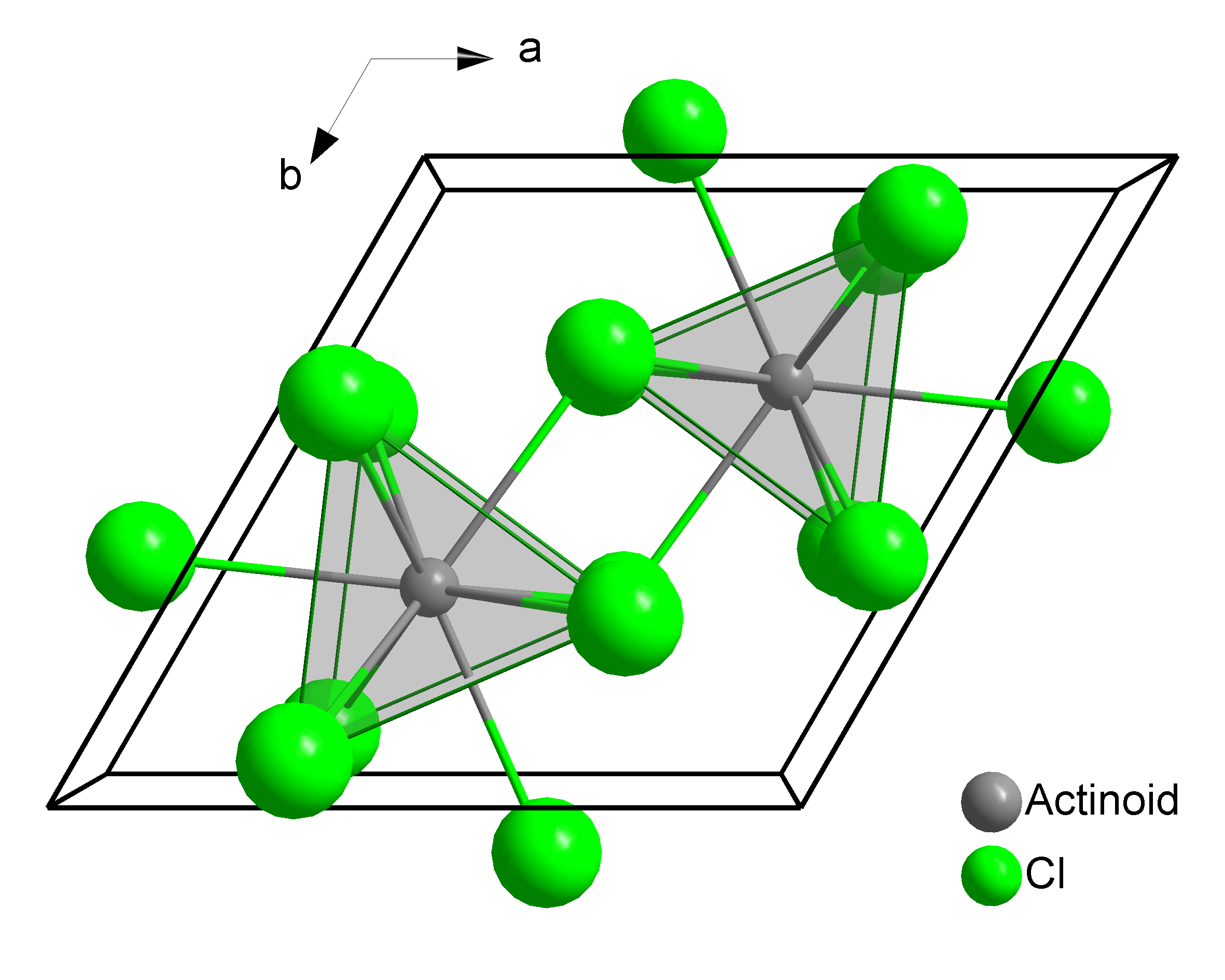 Crystal structure of UCl3-type